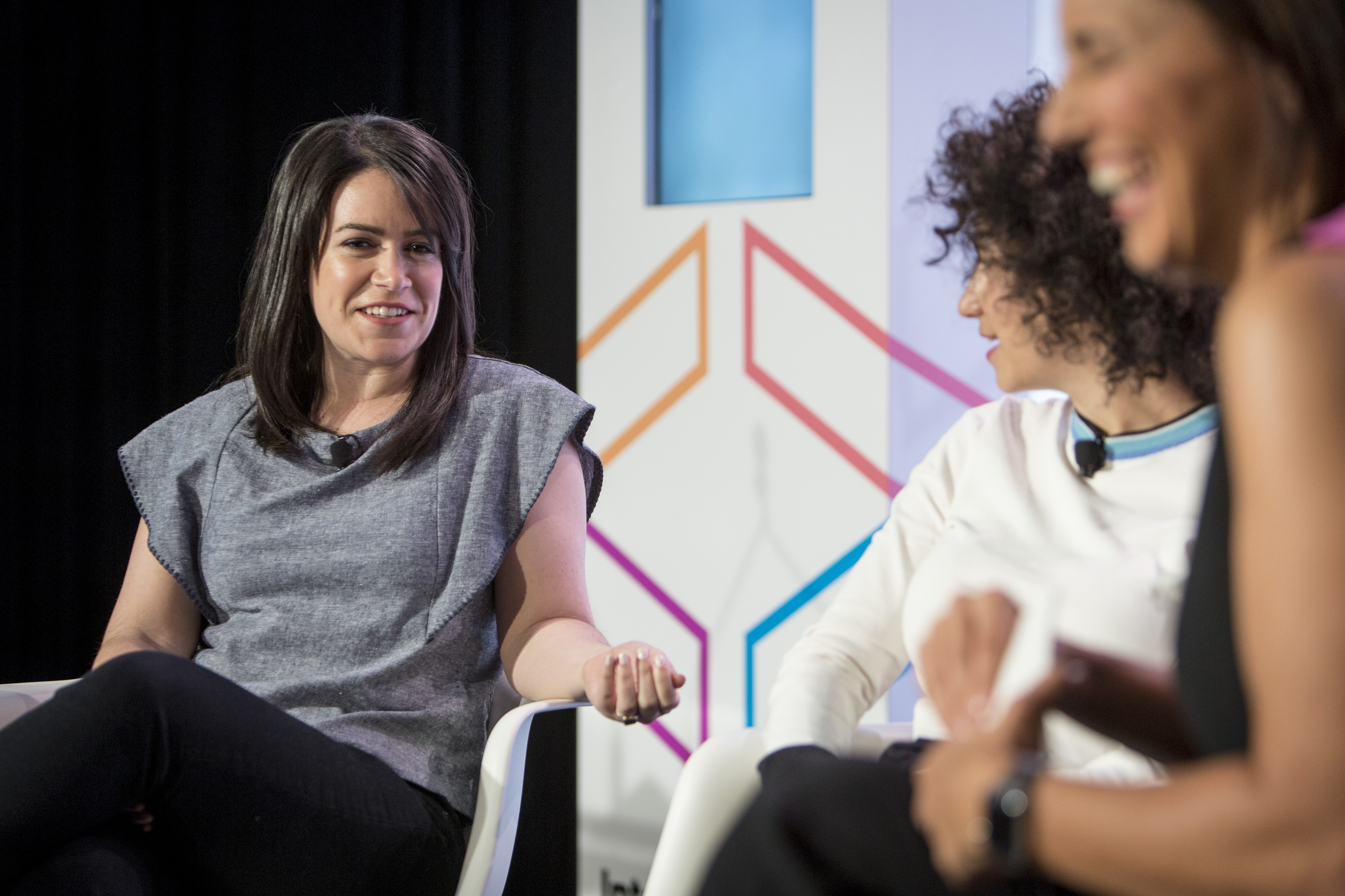 Marie Claire Editor in Chief Anne Fulenwider interviews Broad City's Abbi Jacobson and Ilana Glazer on the YP Stage on Day 1 of Internet Week New York May 18, 2015. INSIDER IMAGES/Gary He